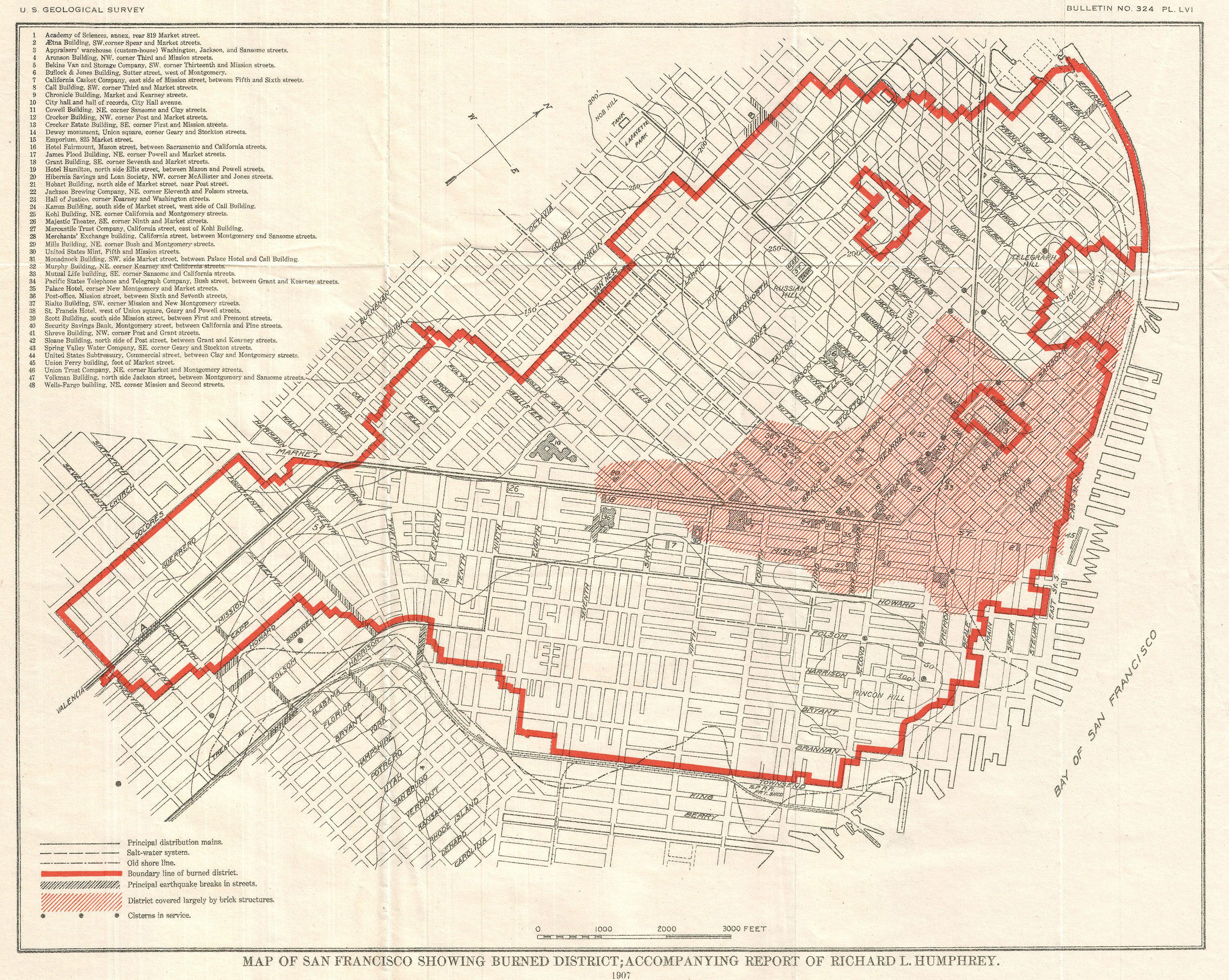 An unusual map of San Francisco, California, dating to 1907. This map was published by the U.S. Geological Survey following the terrible San Francisco Earthquake and Fire of 1906. This natural disaster, comparable to the devastation wrought by Hurricane Katrina, is considered the largest is California History. This map highlights the developed parts of San Francisco most damaged by the fire in red ink. It also shows the region occupied primarily by brick buildings, streets, water conduits, some topographical features, earthquake damage to streets, and cisterns. Published in the U.S. Geological Survey's report on the San Francisco Earthquake and Fire, 1907.